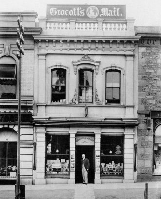 Thomas Henry Grocott 1838 to 1912 - founder and original owner Grocott's Mail standing in front of the shop that was burnt down in 1906 and rebuilt in the same place on High Street.